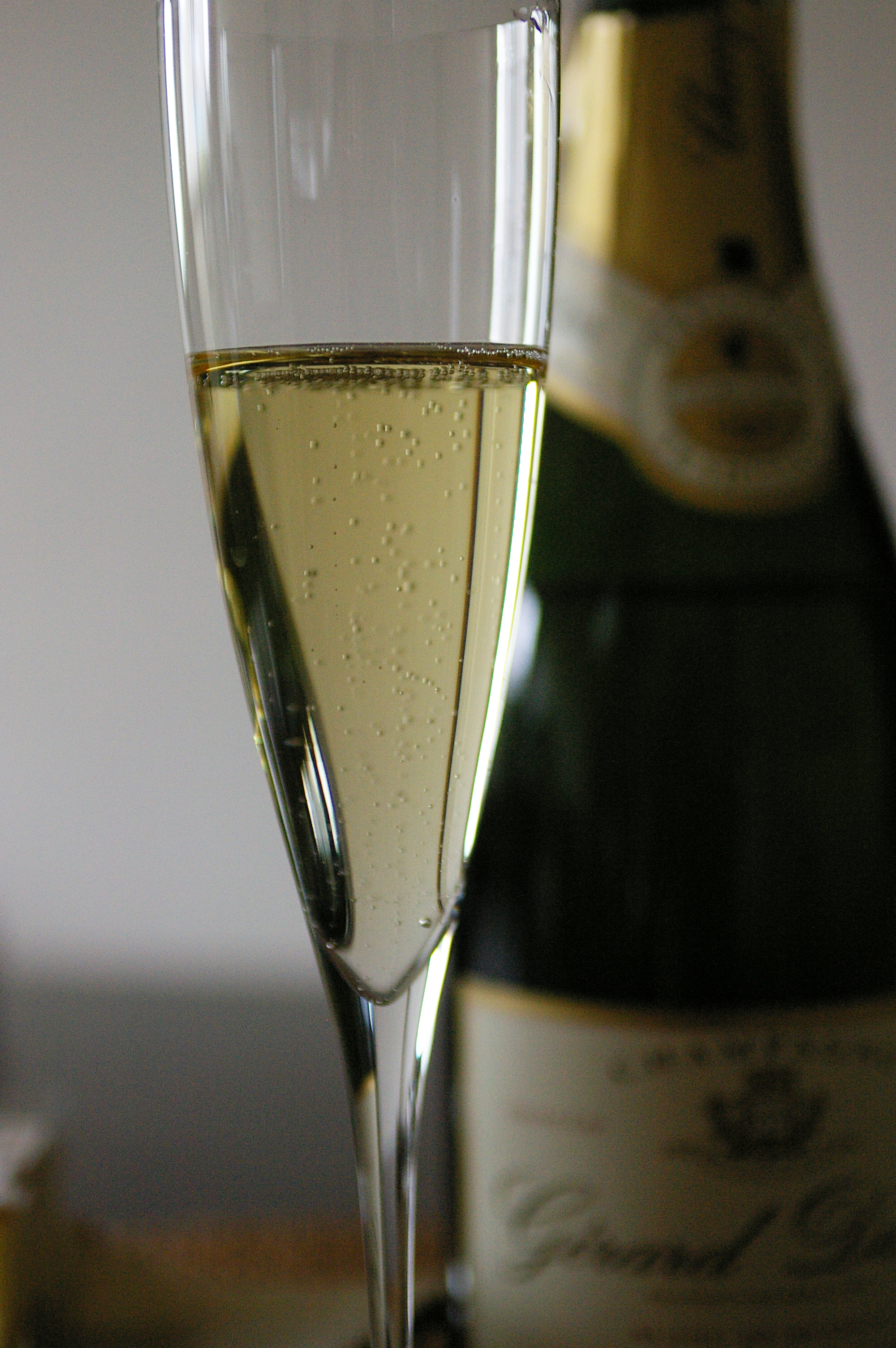 Image of a Blanc de Blancs Champagne made from Chardonnay grapes from GERARD DUBOIS.